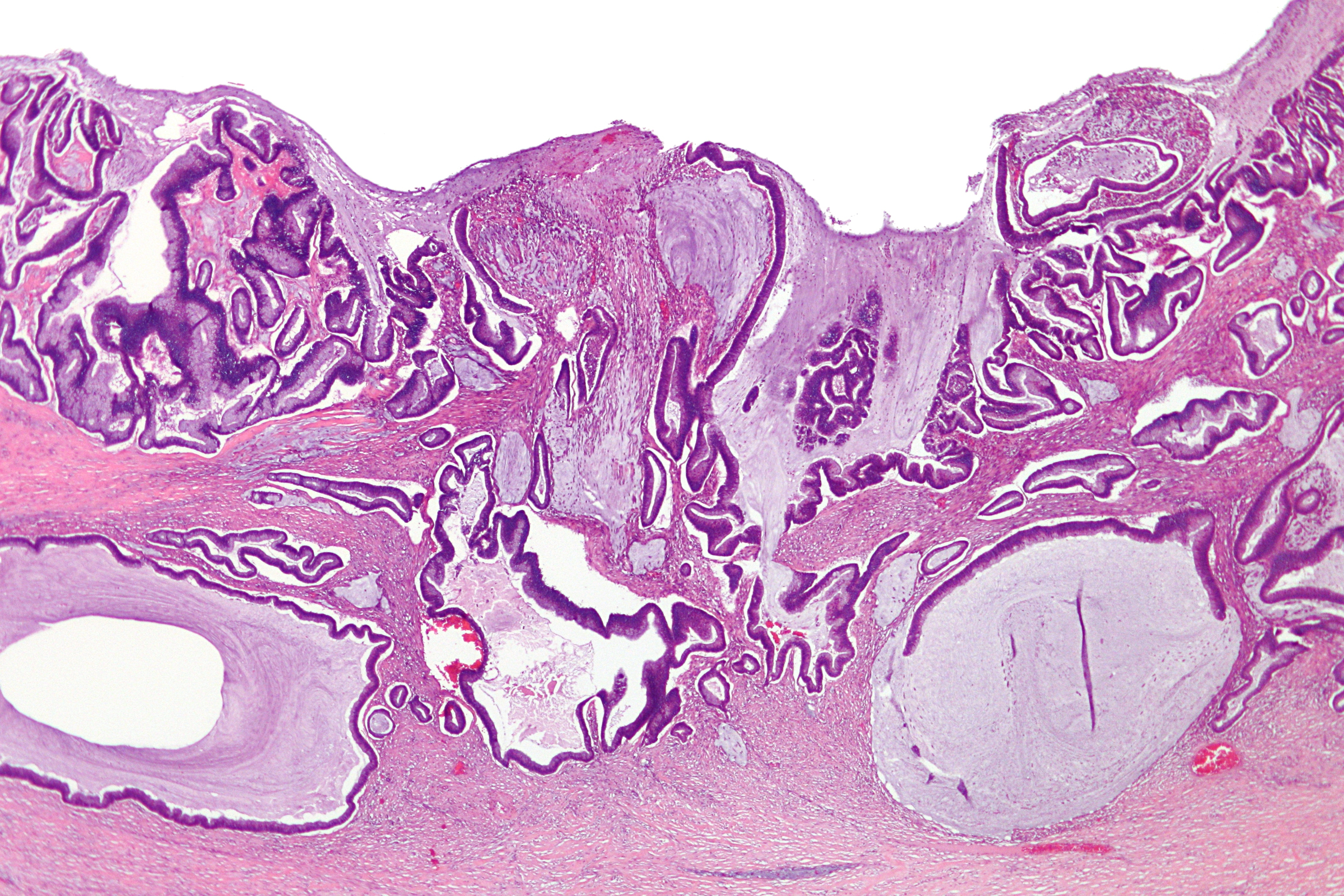 Very low magnification micrograph of a mucinous adenocarcinoma of the colon, a type of colon cancer. H&E stain. Related images Very low mag. Low mag.